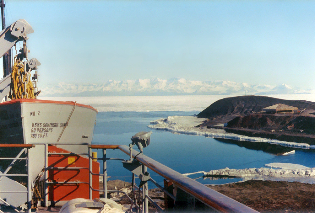 Southern McMurdo Sound looking westward as seen from the freighter USNS Southern Cross at McMurdo Station. The prefabricated hut erected by the National Antarctic Discovery Expedition (1901-1904) adjacent to Winter Quarters Bay can be seen in the middleground. Explorer Robert Falcon Scott later used this hut for staging operations during his ill-fated expedition to the South Pole in 1911. Vince's Cross, a wooden cross erected in 1902 to honor Seaman George T. Vince who drowned nearby is located immediately above the hut on a small knoll overlooking the bay. Our Lady of the Snows Shrine, a Madonna statue honoring Richard T. Williams, a Seabee tractor driver who drowned in 1956, is also nearby. Moreover, another monument is erected nearby to commemorate Raymond T. Smith, a Navy petty officer killed during a cargo operations aboard the USNS Southern Cross in February 1982.